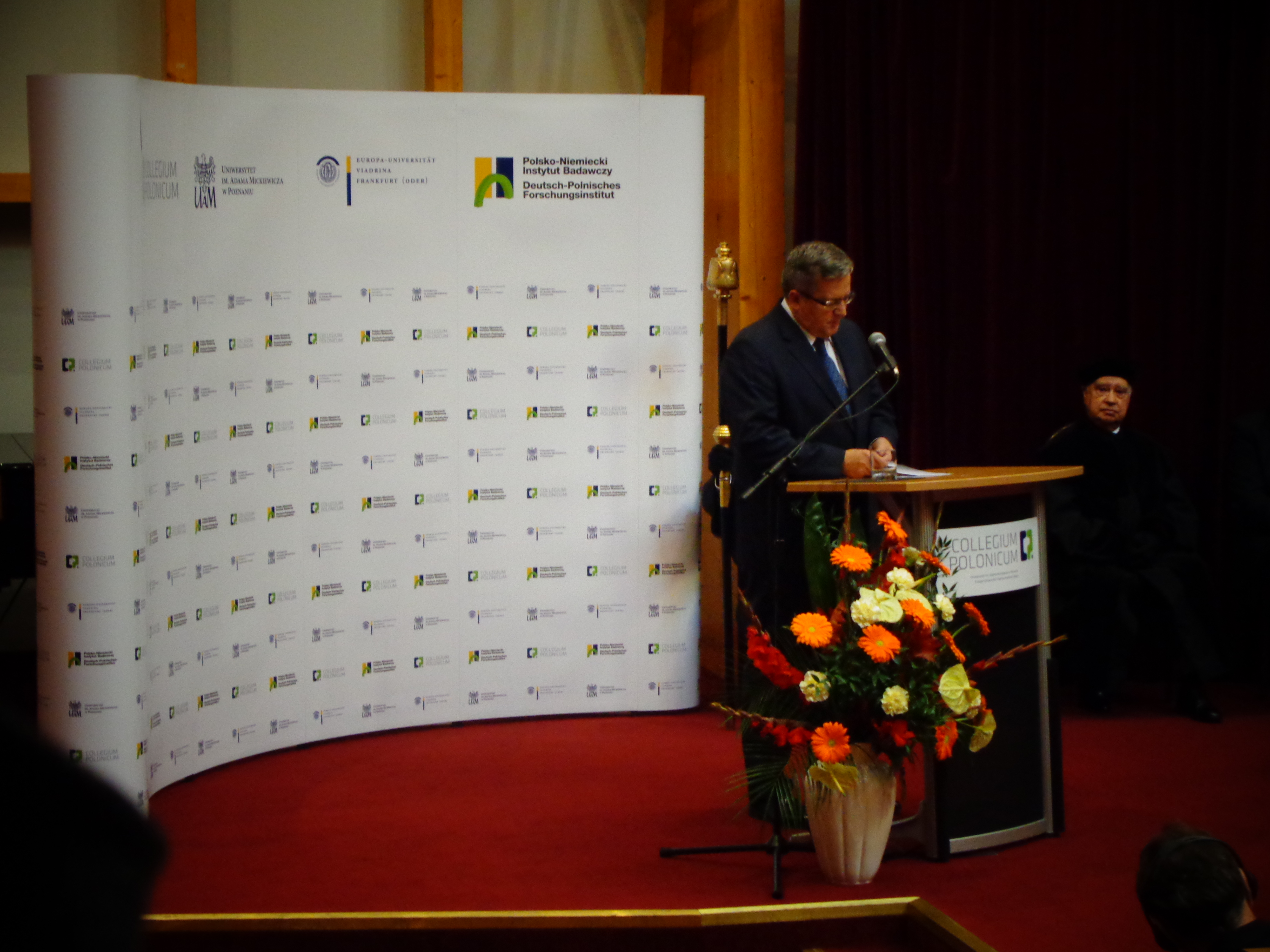 Polish President Bronislaw Komorowski giving his speech on the inauguration act of the academic year 2013-14 in Collegium Polonicum in Slubice on 18th October 2013. On the right margin the director of the German-Polish Research Institute Andrzej J. Szwarc.